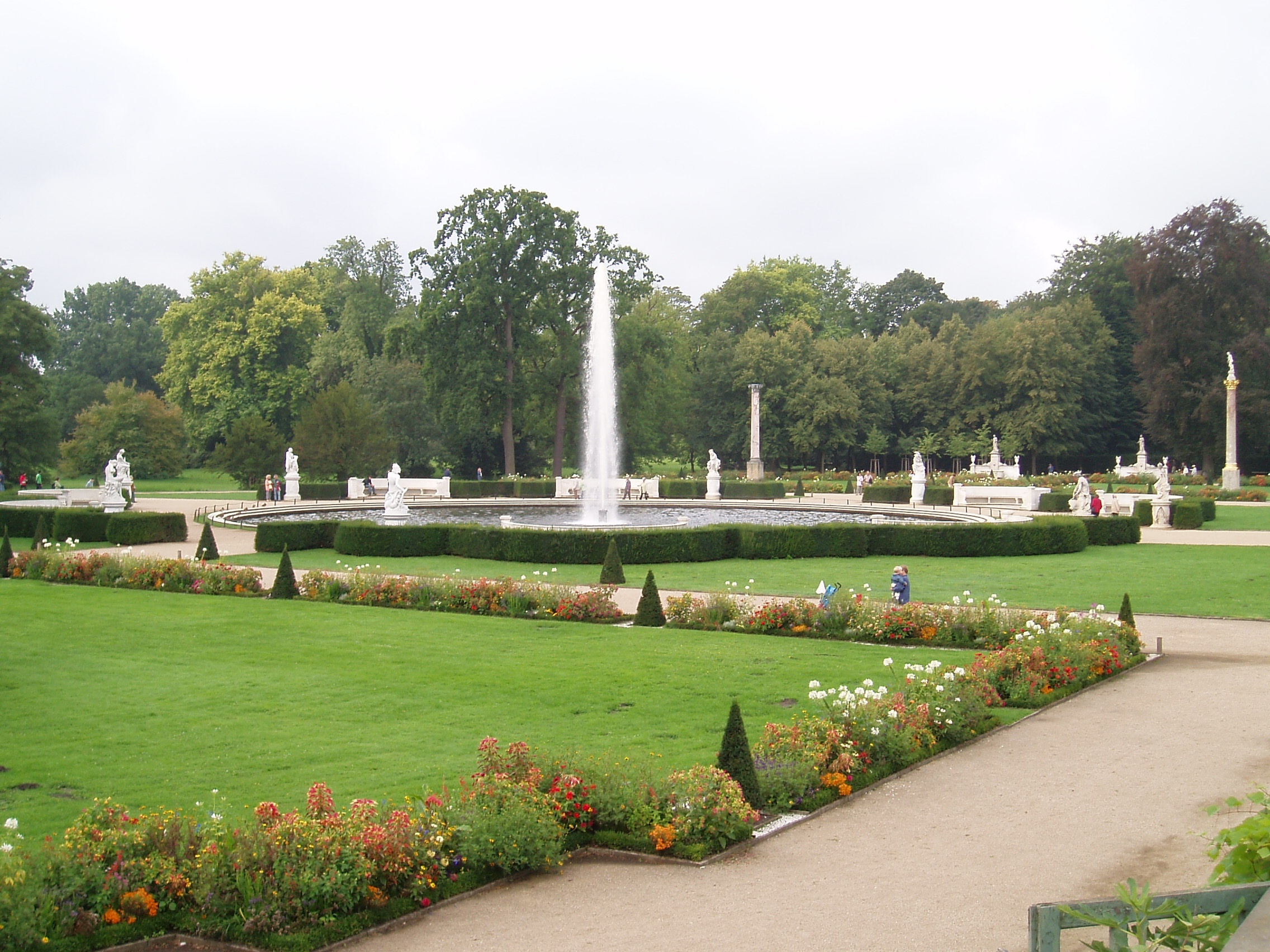 Sanssouci - the Palace and surrounding Park built in Potsdam, Germany by Frederick the Great